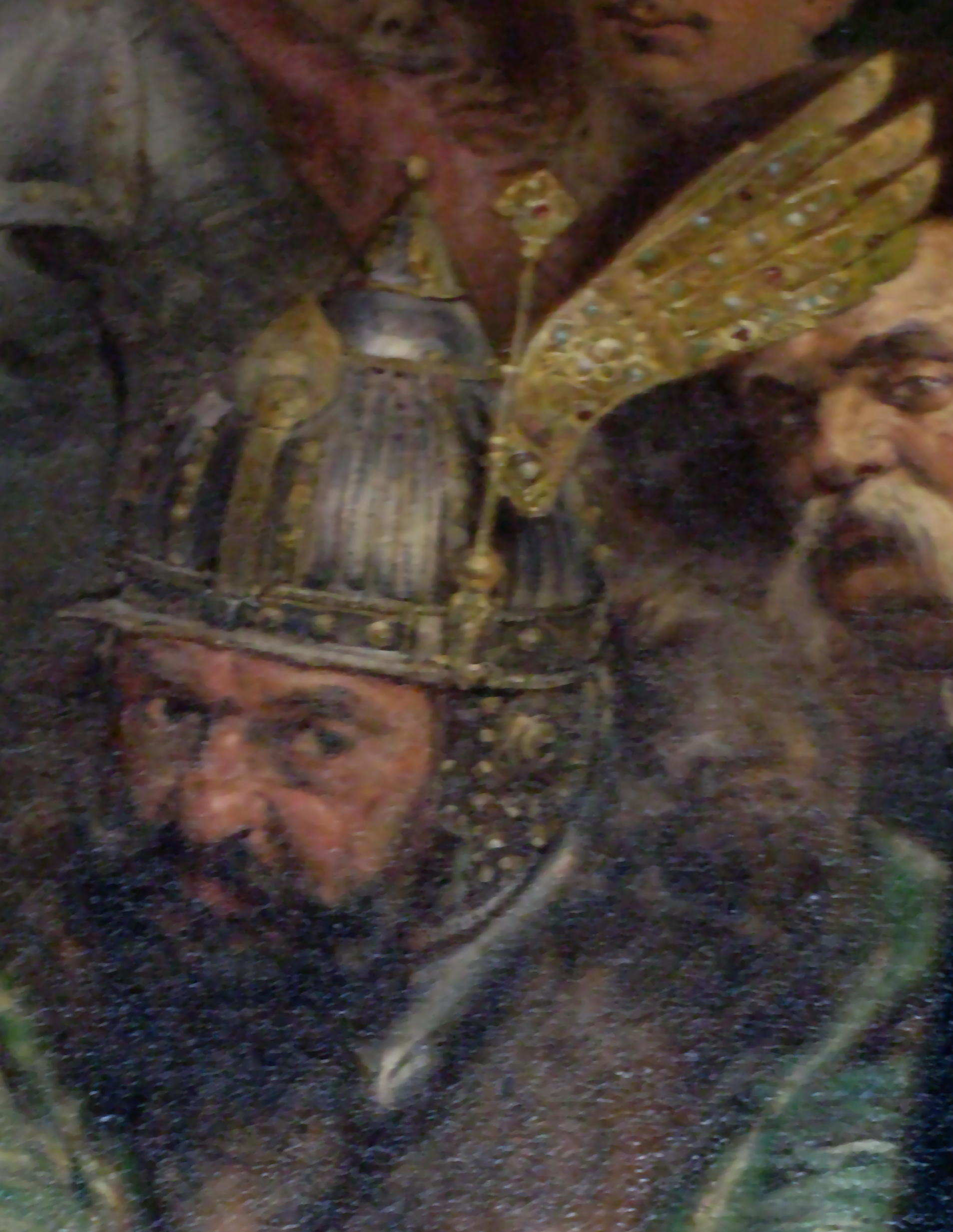 Janusz Zbaraski, fragment of painting Batory pod Pskowem 1872